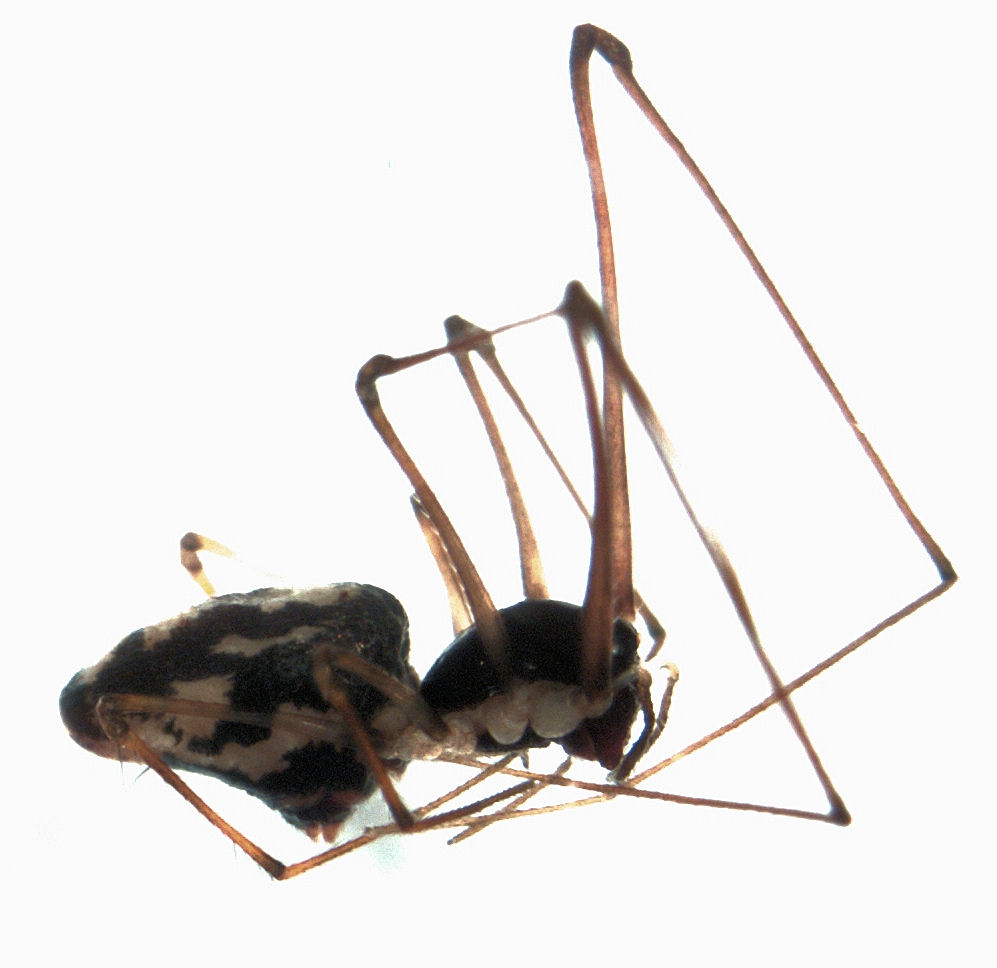 adult female Tekelloides flavonotatus